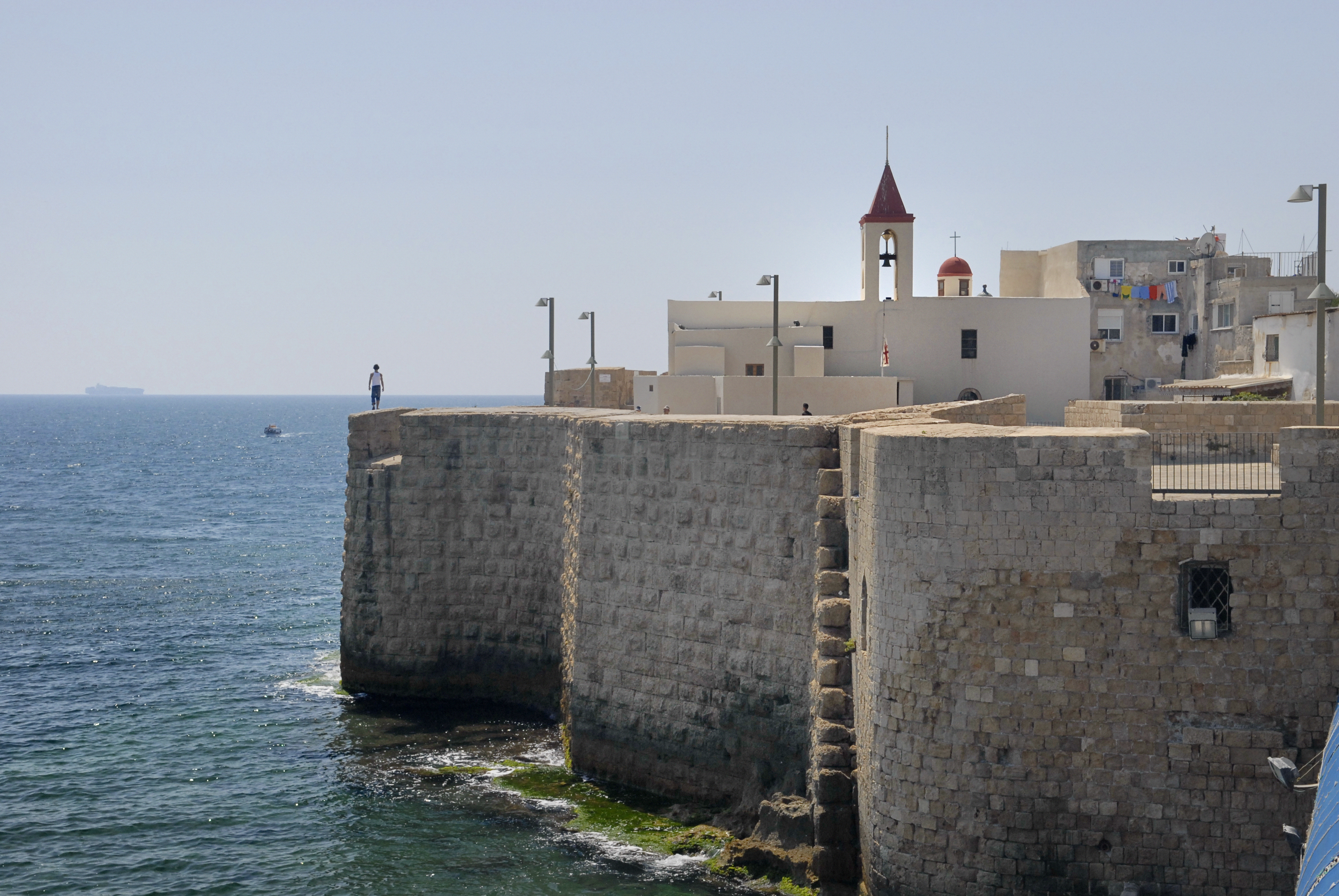 St. John Baptist Church in Acre, Galiläa, Israel (2008).